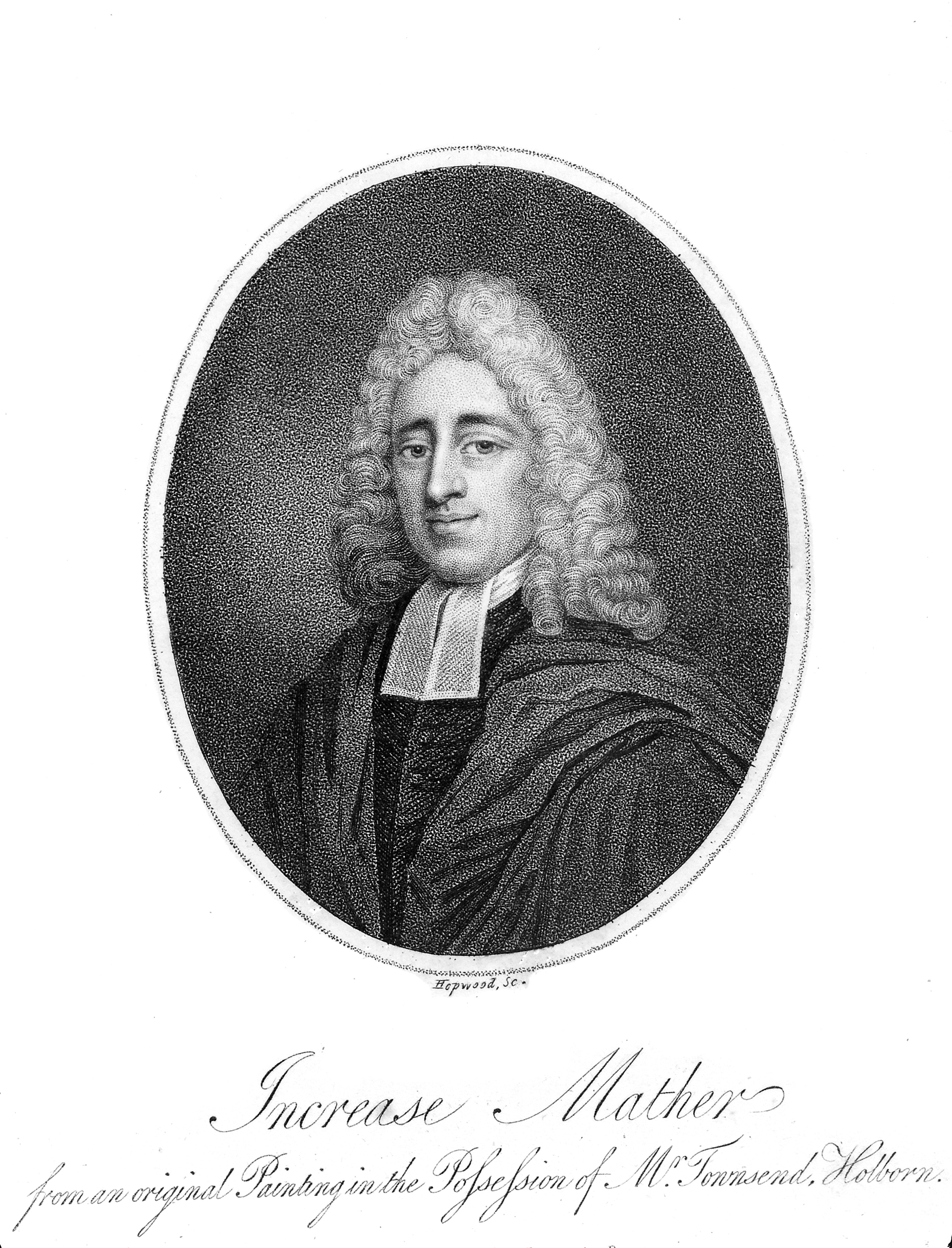 Increase Mather. From a stipple by Hopwood after a picture at one time in the possession of a Mr Townsend of Holborn. Iconographic Collections Keywords: H. Hopwood; Increase Mather